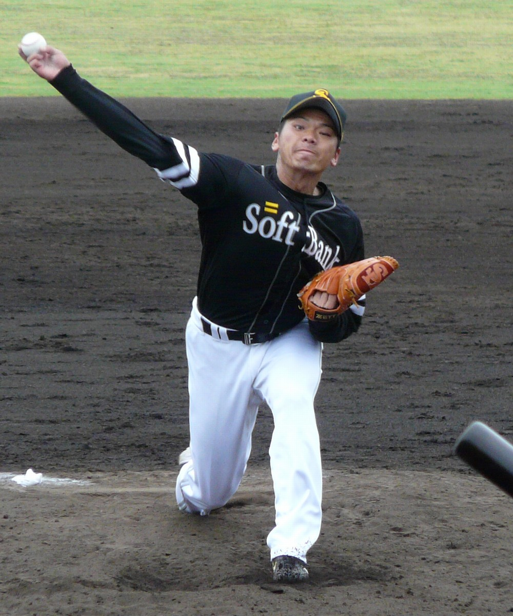 Makoto Sato